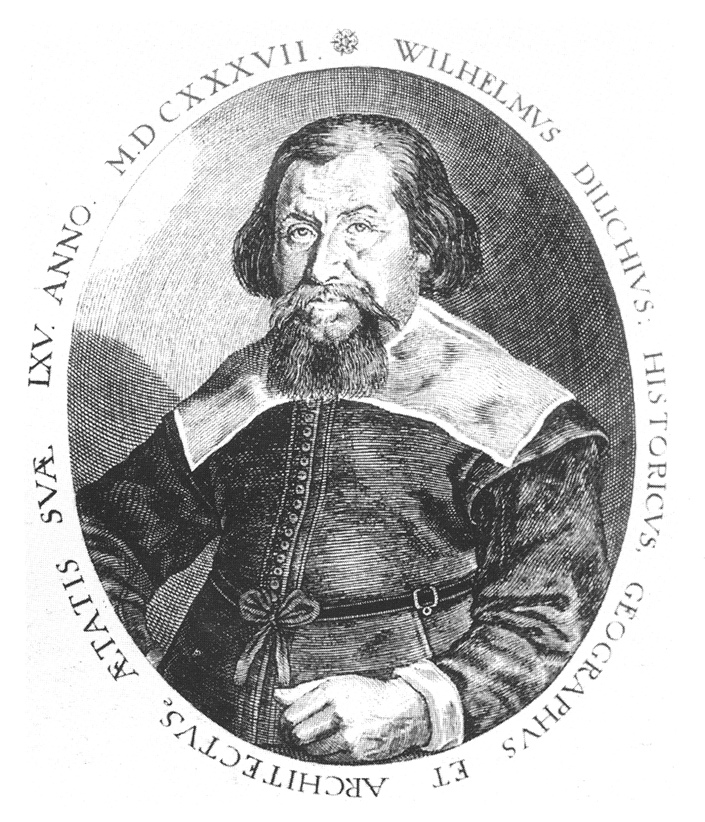 Wilhelm Dilich (1571–1650), engineer, engraver and illustrator from Hesse, Germany. Portray by S. Fürck from the year 1637.